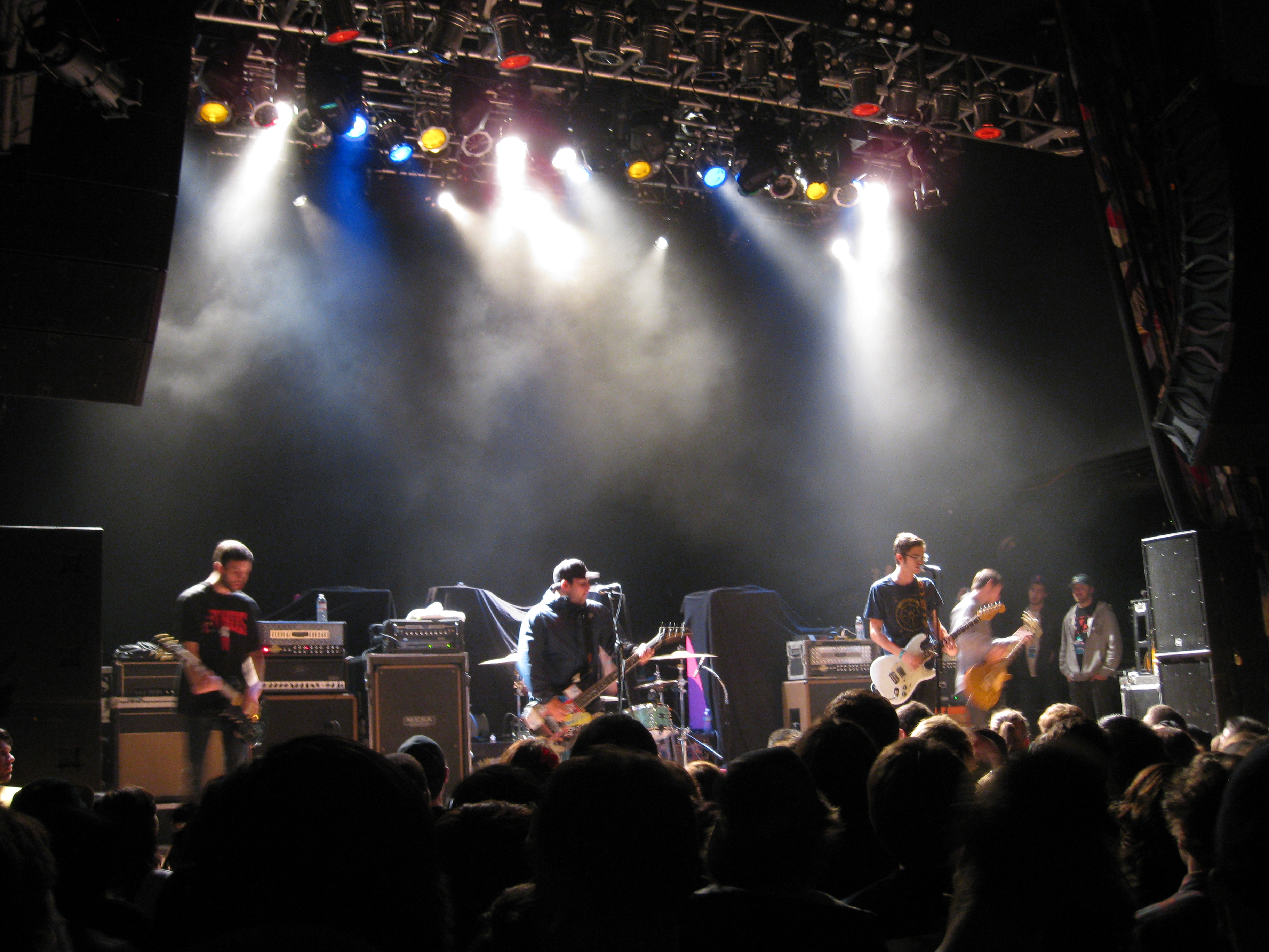 Man Overboard performing November 20, 2011 at the House of Blues in San Diego, California, as part of the "Pop Punk's Not Dead" tour. Left to right: guitarist Wayne Wildrick, singer/bassist Nik Bruzzese, singer/guitarist Zac Eisenstein, and guitarist Justin Collier. Drummer Mike Hrycenko is not visible behind Bruzzese.